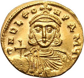 Solidus of Leo III the Isaurian.